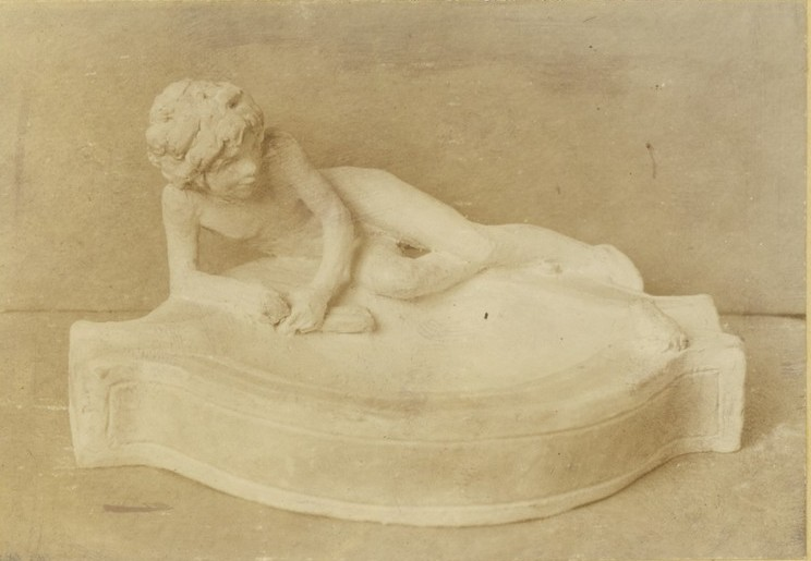 Identifier: A1621-00665 Date: 1907-01 Decade: 1900-1909 Creator: Risque, Caroline, 1883-1952 Types: Serial , Page Subjects: Sculpture , Women , Photography , Art , Artists Rights: NO COPYRIGHT - UNITED STATES Permalink: Description: Photographs by terra-cotta ash receiver by Caroline Risque, photographs by Williamina Parrish